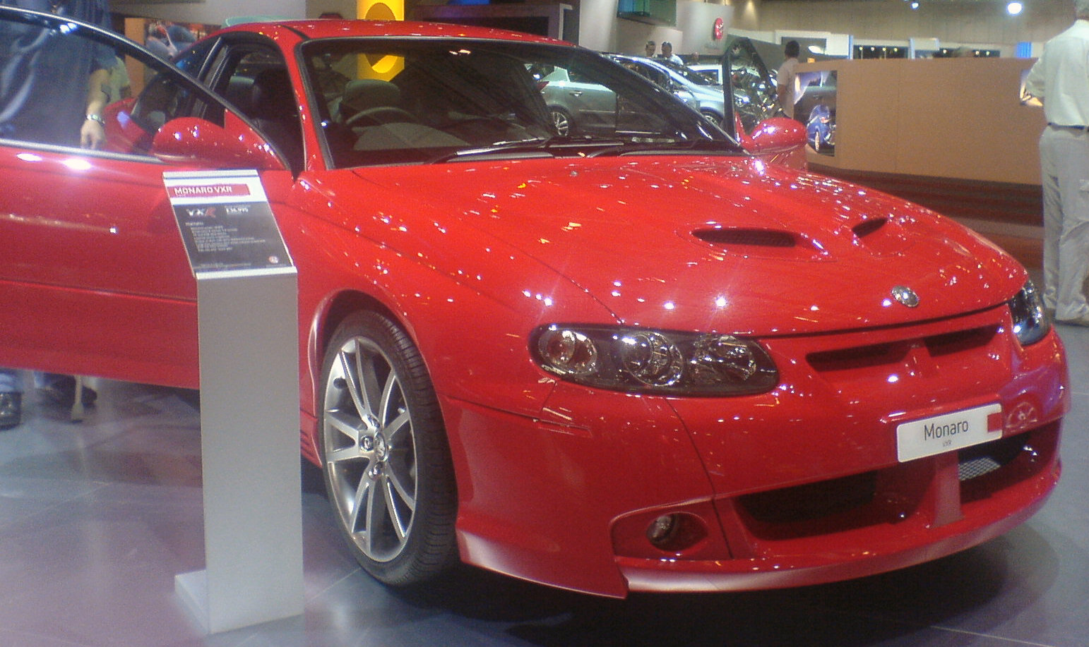 Vauxhall Monaro VXR at the 2006 British International Motor Show